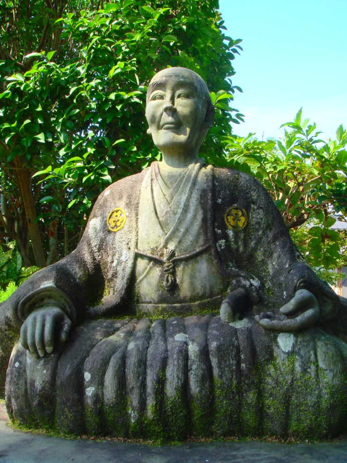 Statue of Hirose Tanso (1782-1856), a Confucian scholar living in Hita. Hirose Tanso founded a private academy called Kangien.